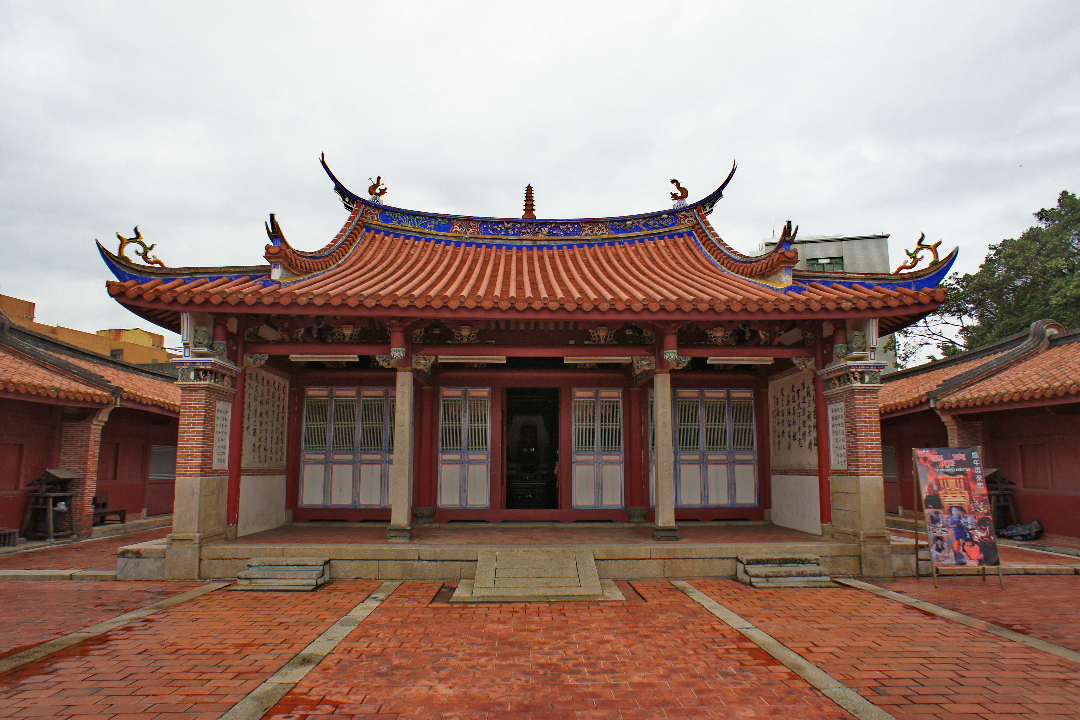 Wunwu Temple, Lukang, Taiwan.